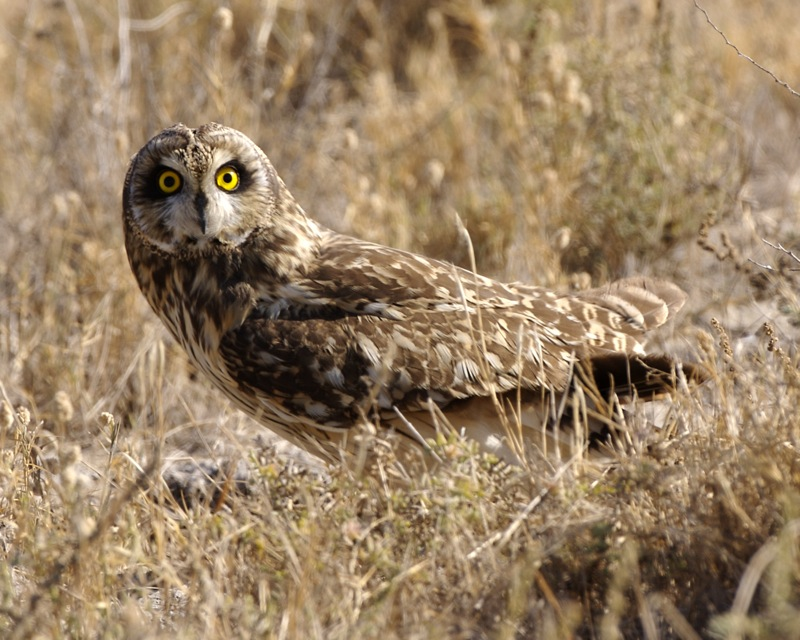 Short-eared Owl Asio flammeus aka Strix Flammea Location: , Little Rann of Kutch, Gujerat, India, India November 28, 2006 Distribution: worldwide _Q0S1917